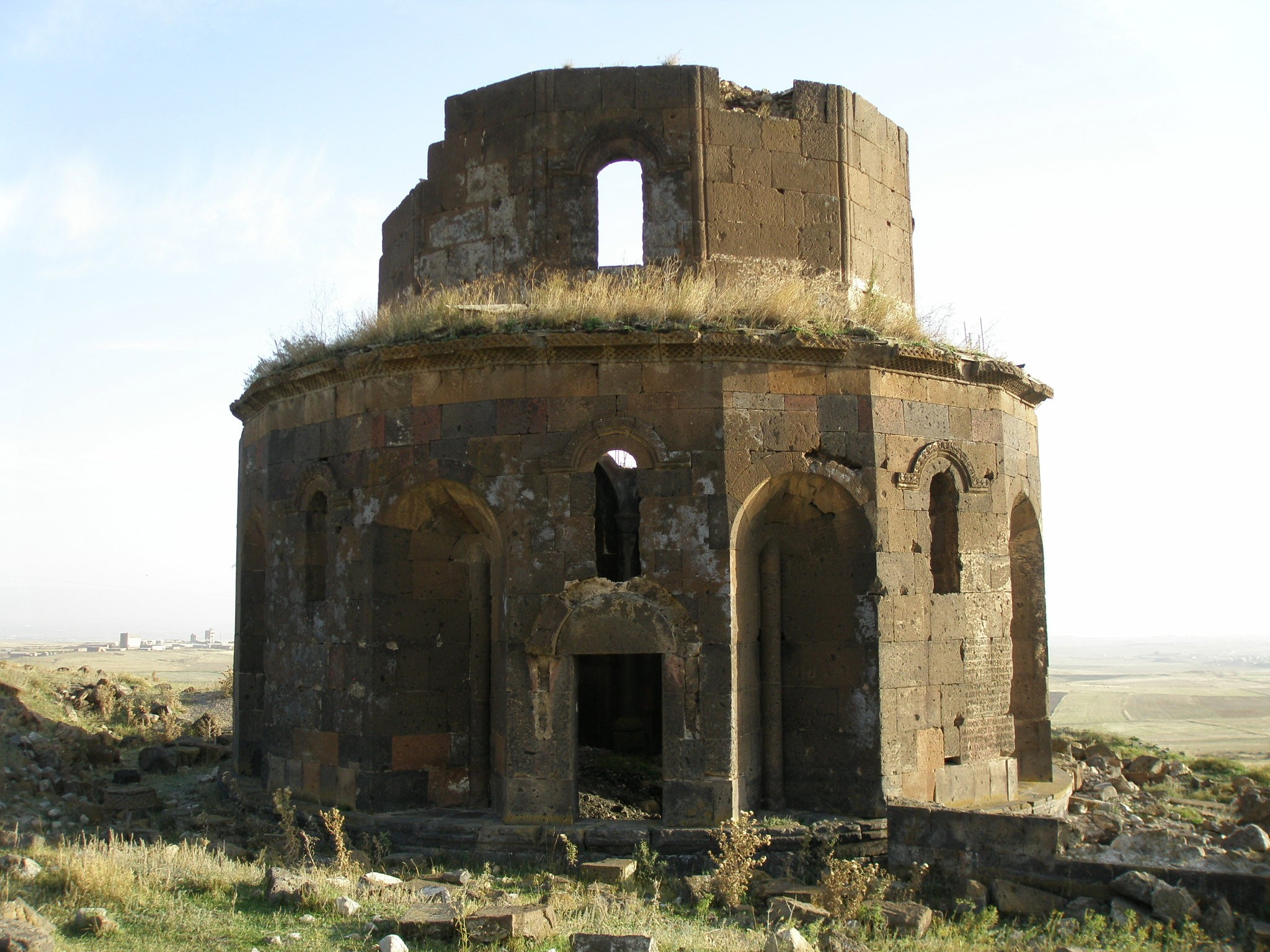 Gharghavank